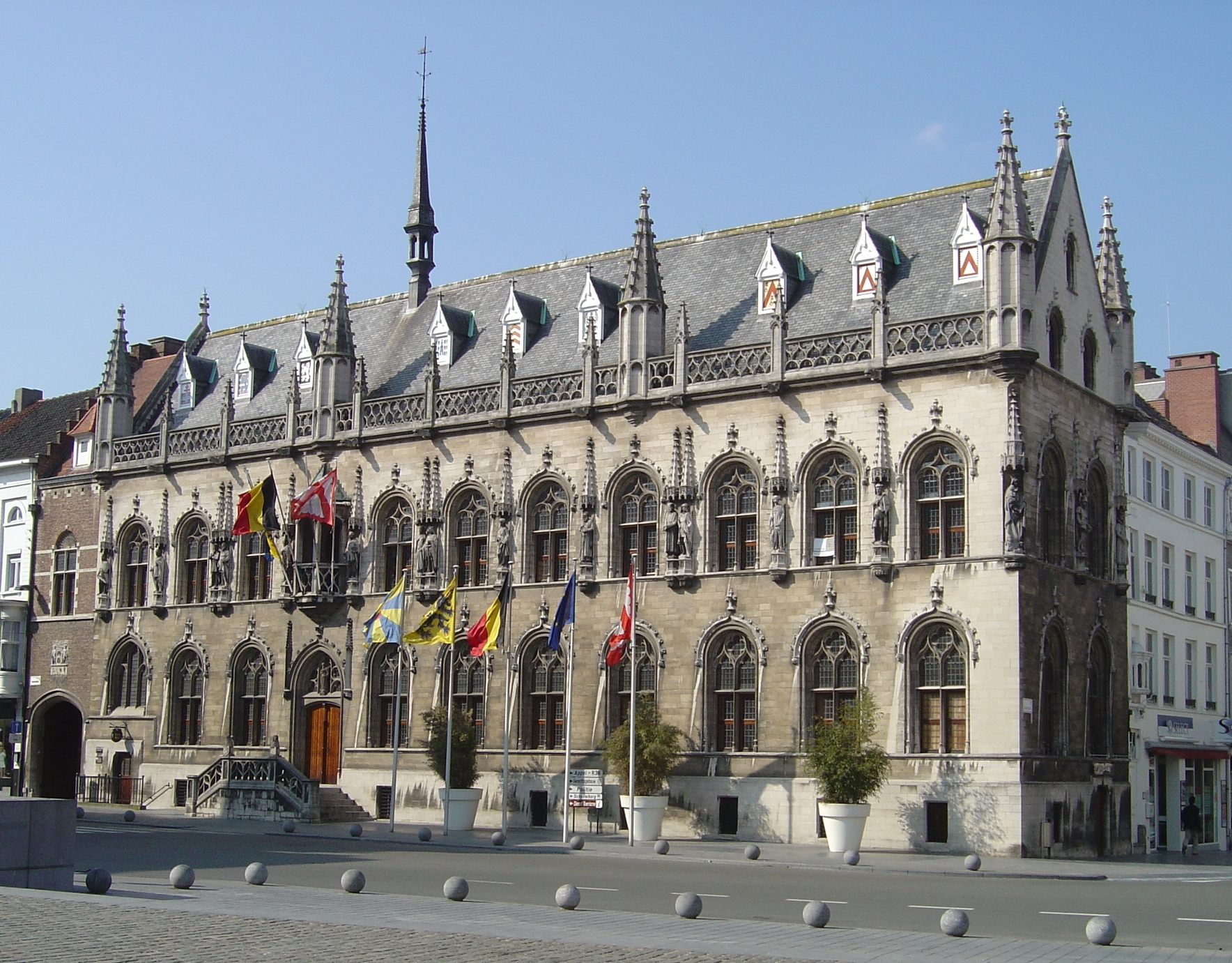 City hall of Kortrijk (Belgium)